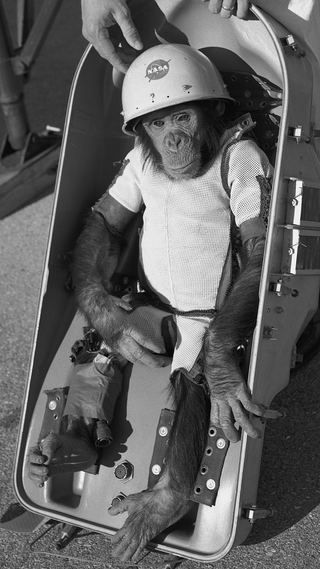 Chimpanzee "Ham" in space suit is fitted into the couch of the Mercury-Redstone 2 capsule #5 prior to its test flight which was conducted on January 31, 1961.